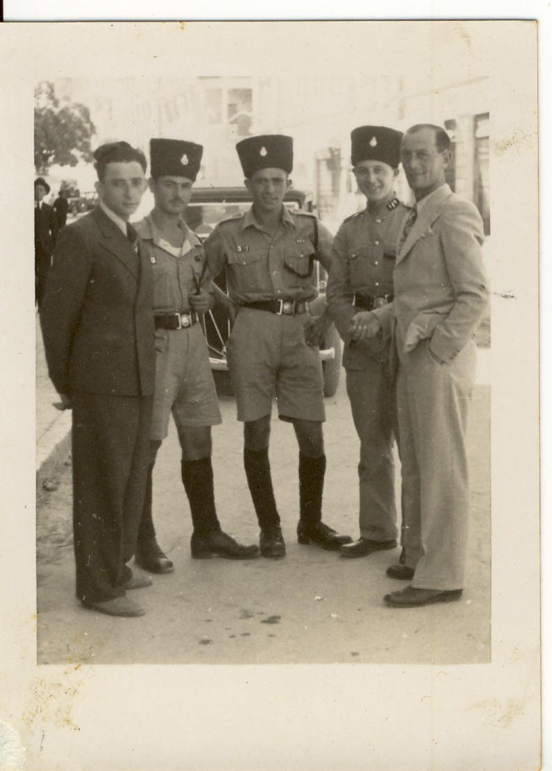 british mandat's police in jerusalem